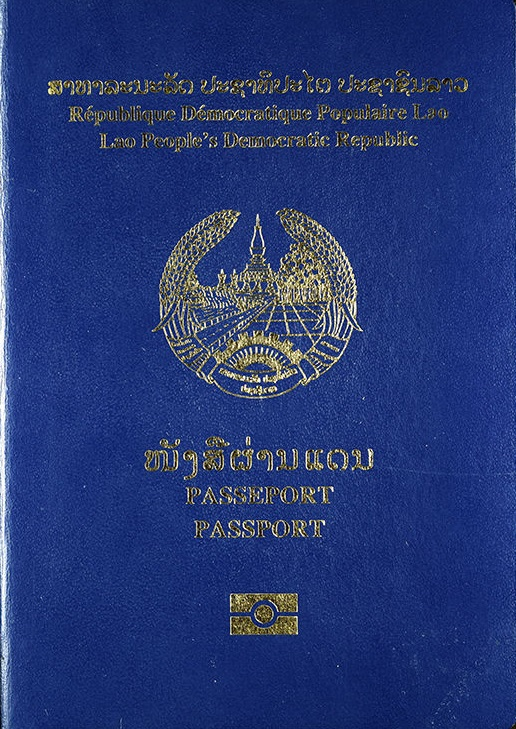 Front cover of a Lao passport